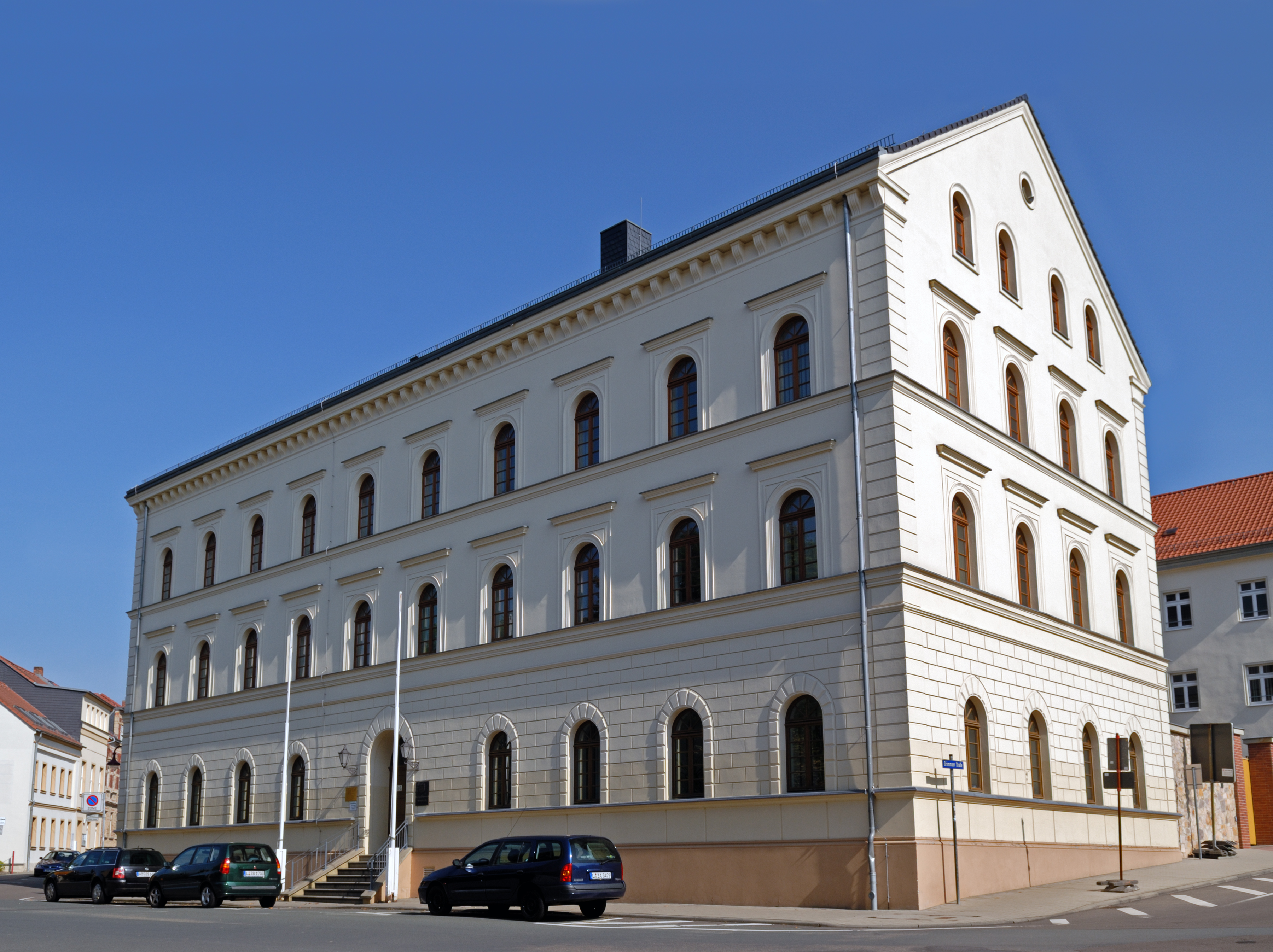 This image shows the district court in Borna, Germany.